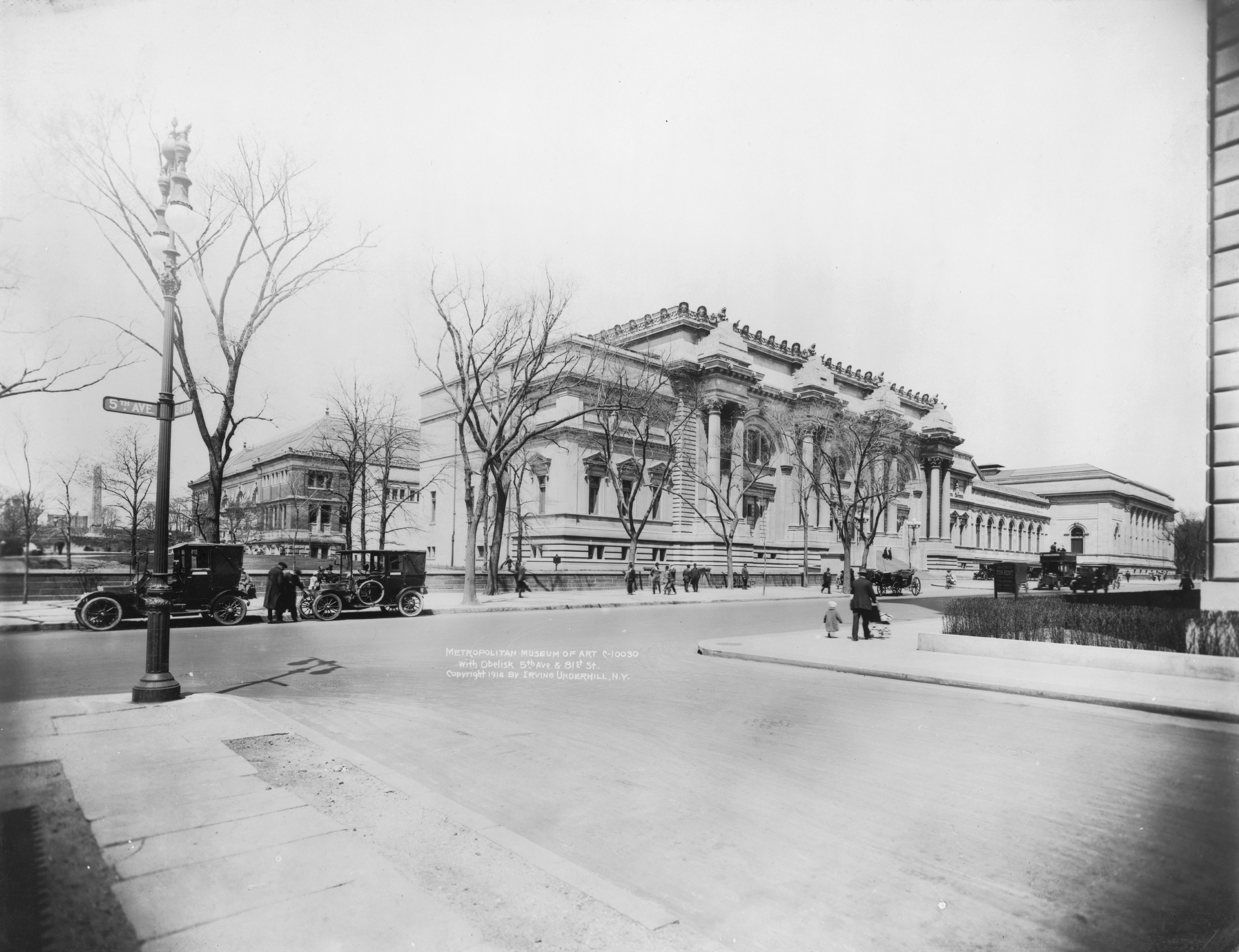 Metropolitan Museum of Art with obelisk, 5th Ave. & 81st St., New York City